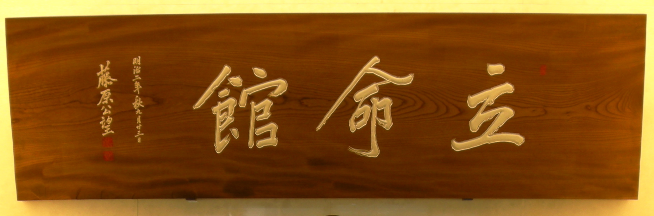 Wooden Plaque "RITSUMEIKAN" by Prince Saionji2